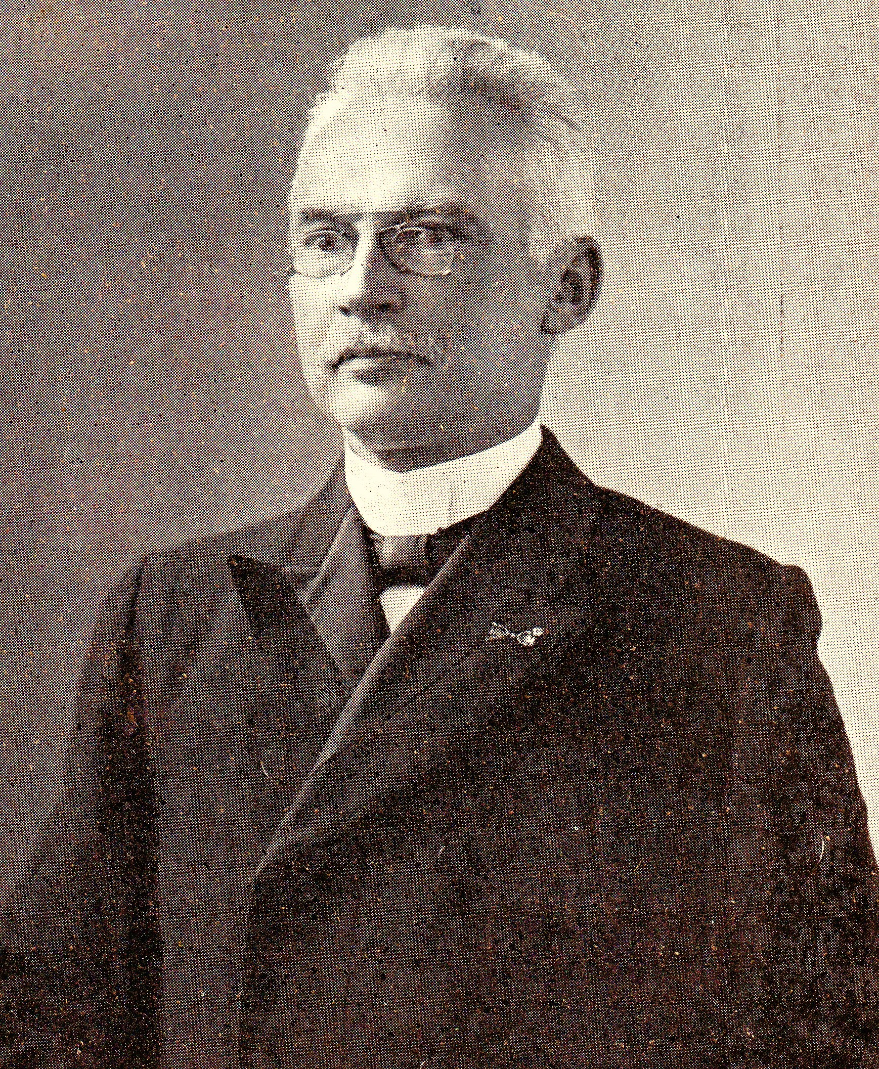 Professor Dr. J. Rotgans